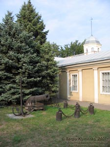 Museum of shipbuilding and fleet